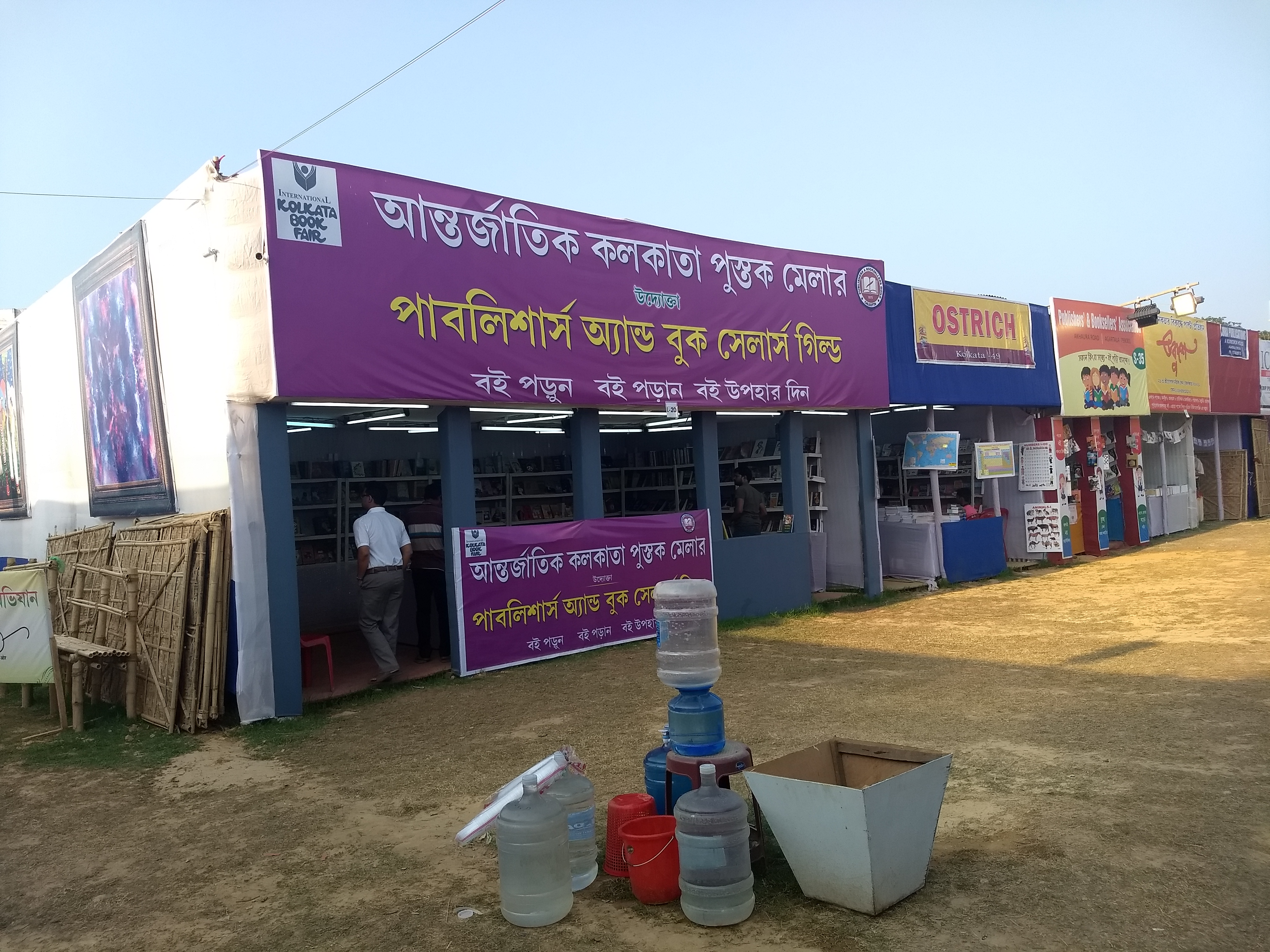 Kolkata book publishers guild stall